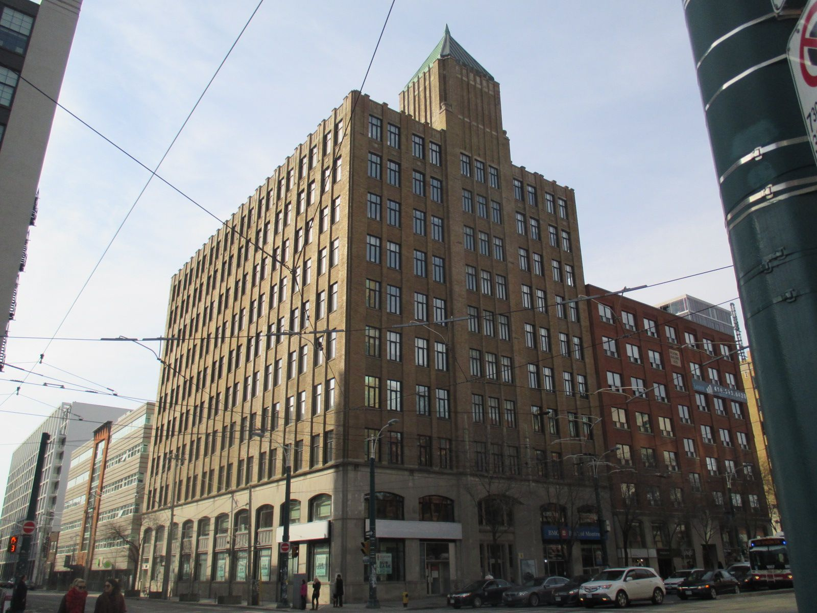 Tower Building, 110 Spadina Ave, Toronto. Built: 1927. Architect: Benjamin Brown.